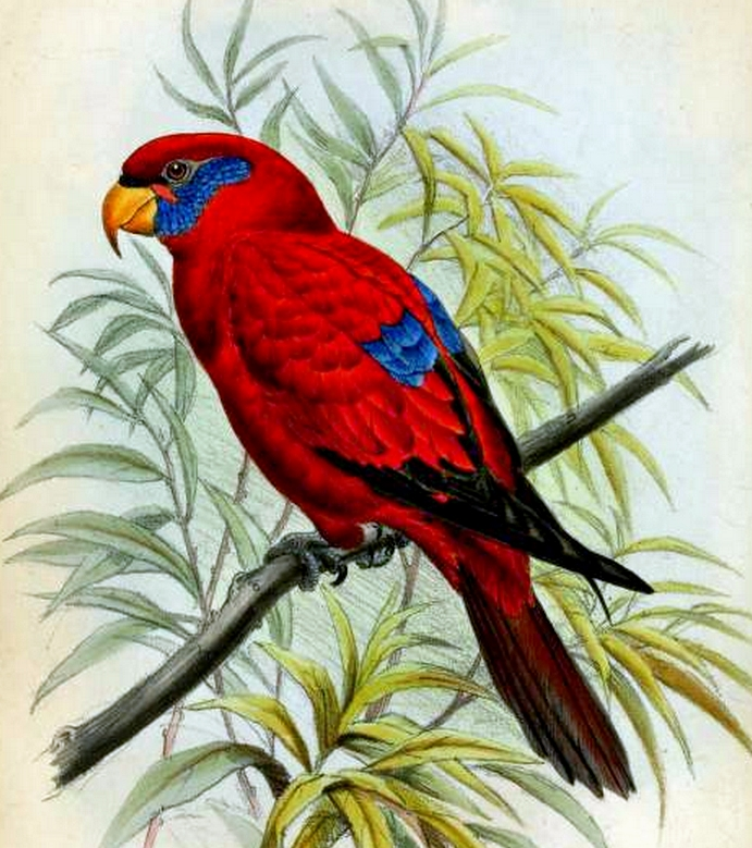 Blue-eared Lory (Eos semilarvata) Bonaparte, 1850; family Psittaculidae